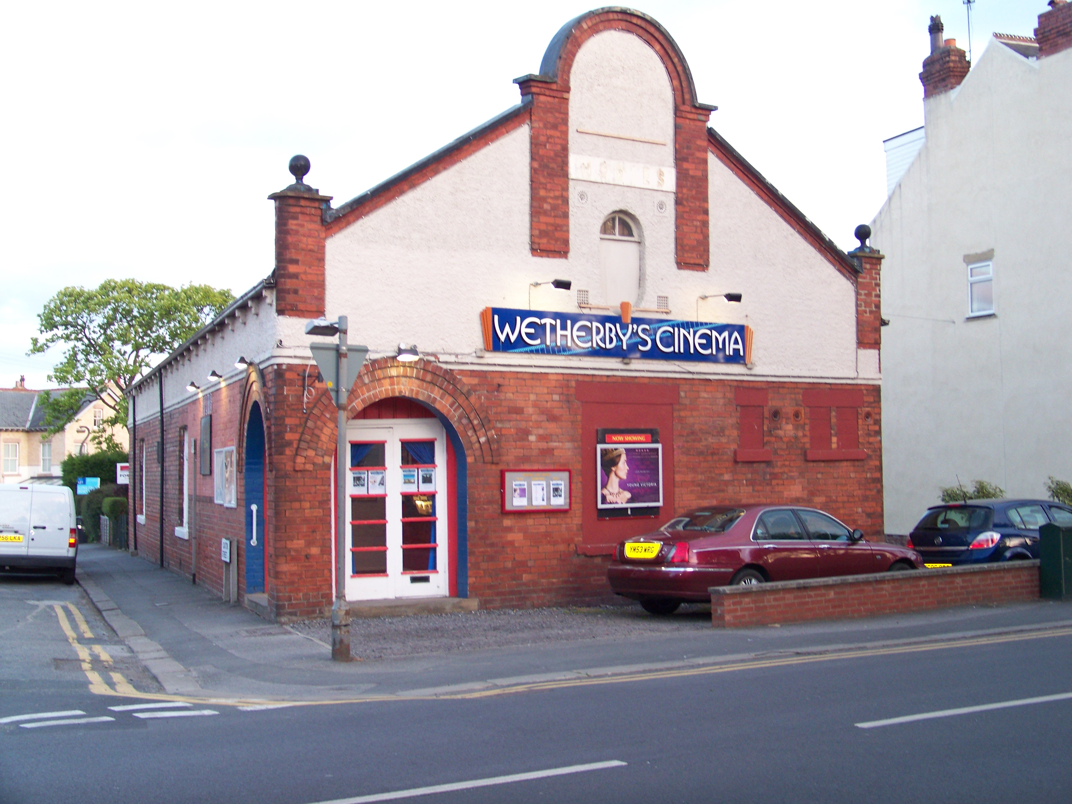 Wetherby Cinema, Caxton Street (infact taken from Crossley Street), Wetherby, West Yorkshire, UK. Taken on the 11th May 2009.